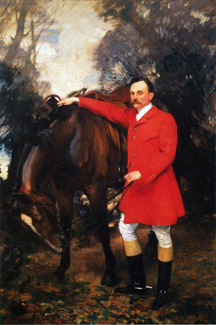 William Marshall Cazalet John Singer Sargent -- American painter 1902 Private collection Oil on canvas 165.1 x 254 cm (100 x 65 in.) Jpg